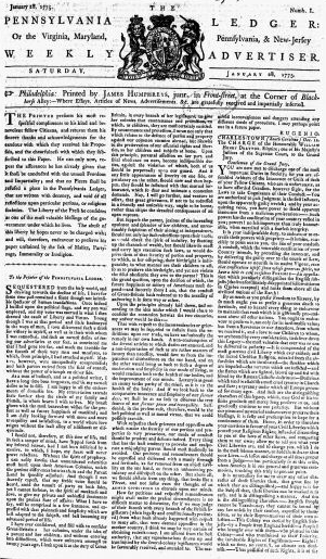 The Pennsylvania Ledger: or the Virginia, Maryland, Pennsylvania, & New-Jersey Weekly Advertiser; Date: 01-28-1775